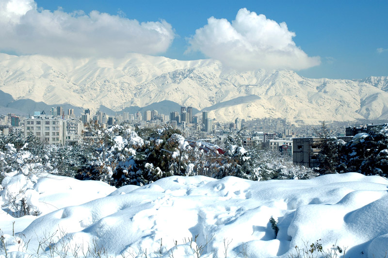 Author: User:Siamax Source:Trek Earth website Tag: tehran city and Alborz mountain